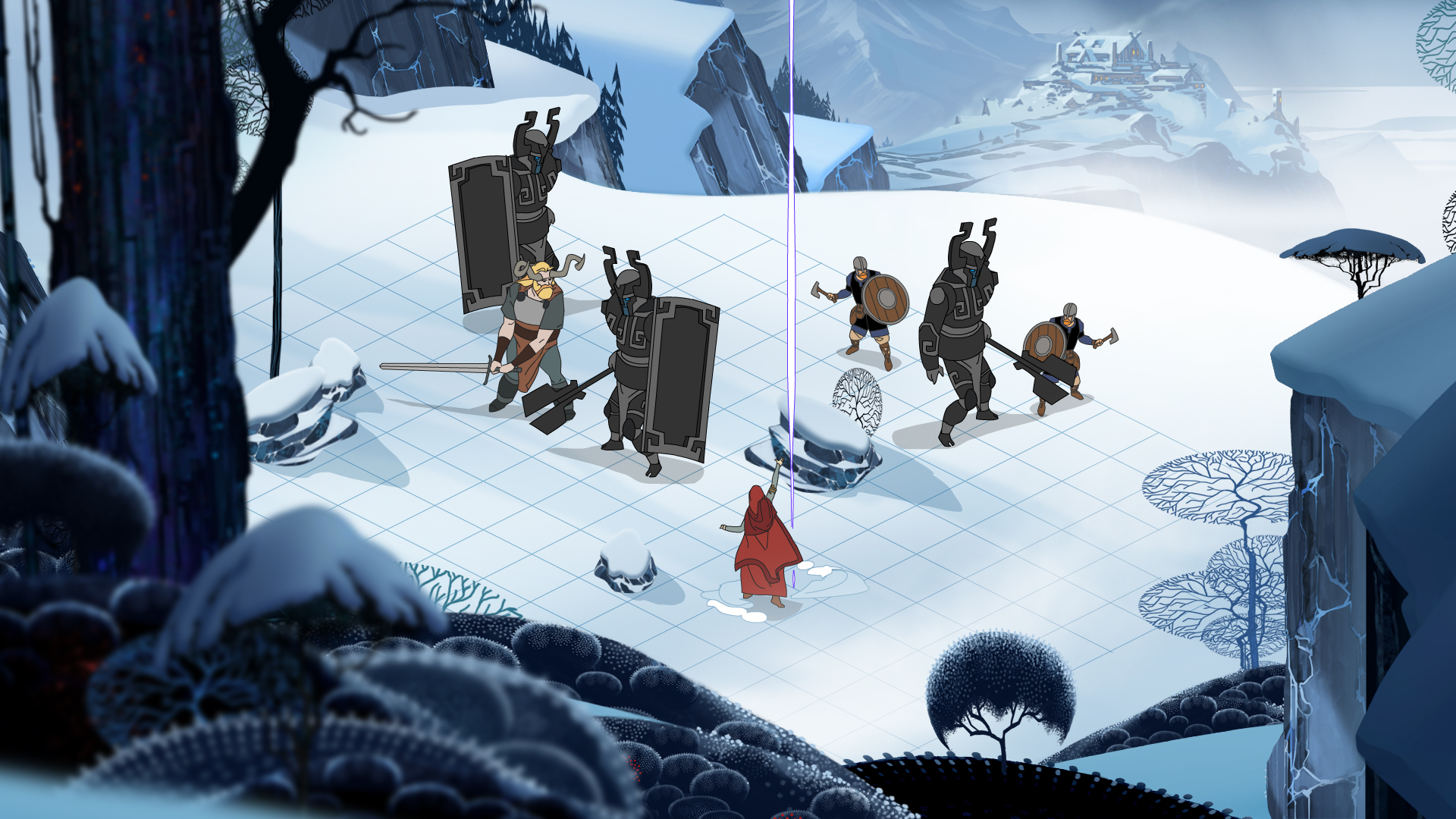 Development artwork from the video game The Banner Saga. The characters take turns moving on the grid board and attacking (the mage is attacking in this shot). Also visible are enemy knights and Viking warriors.